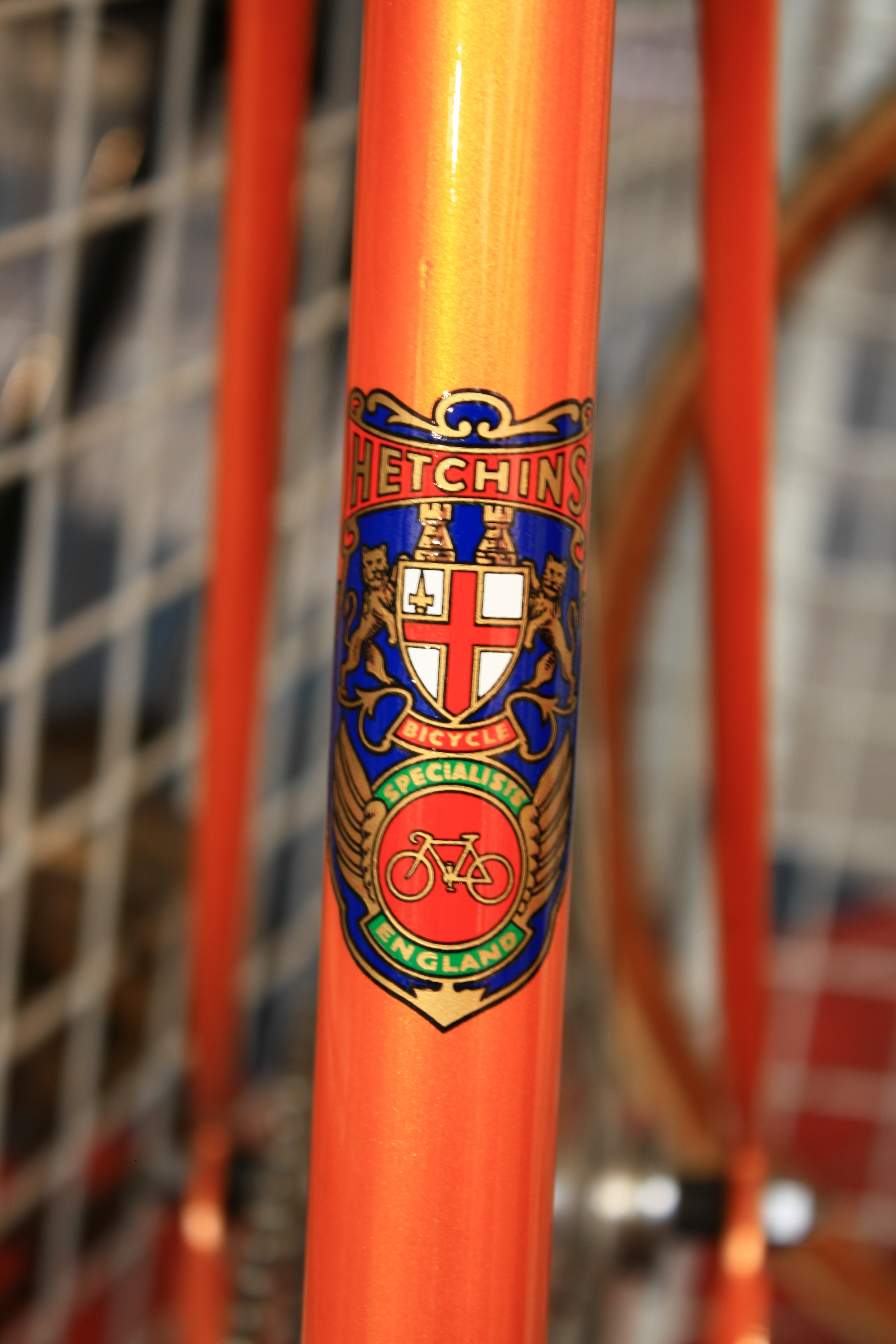 Coventry Transport Museum, UK. 2009